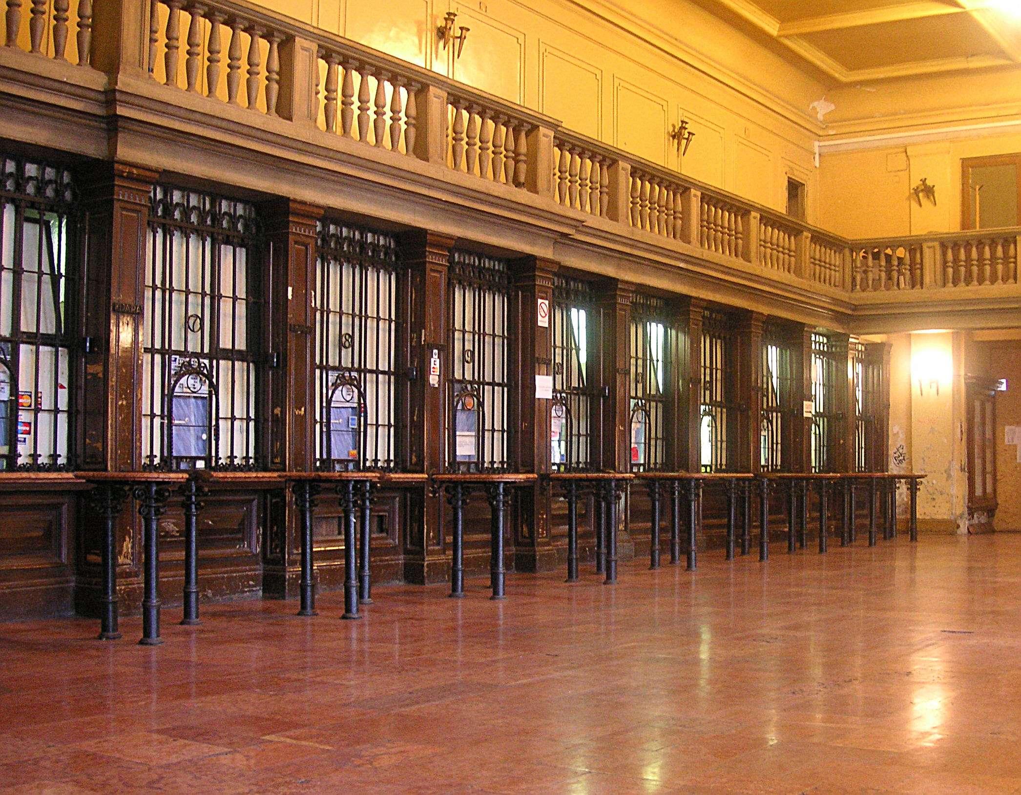 The old ticket hall at Keleti station, Budapest, Hungary. Now it's working for international tickets.